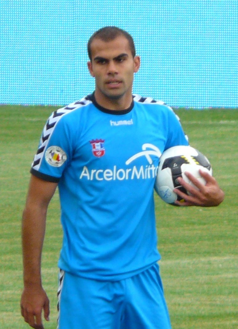 Marius Pena in May 2010, during Otelul - Vaslui